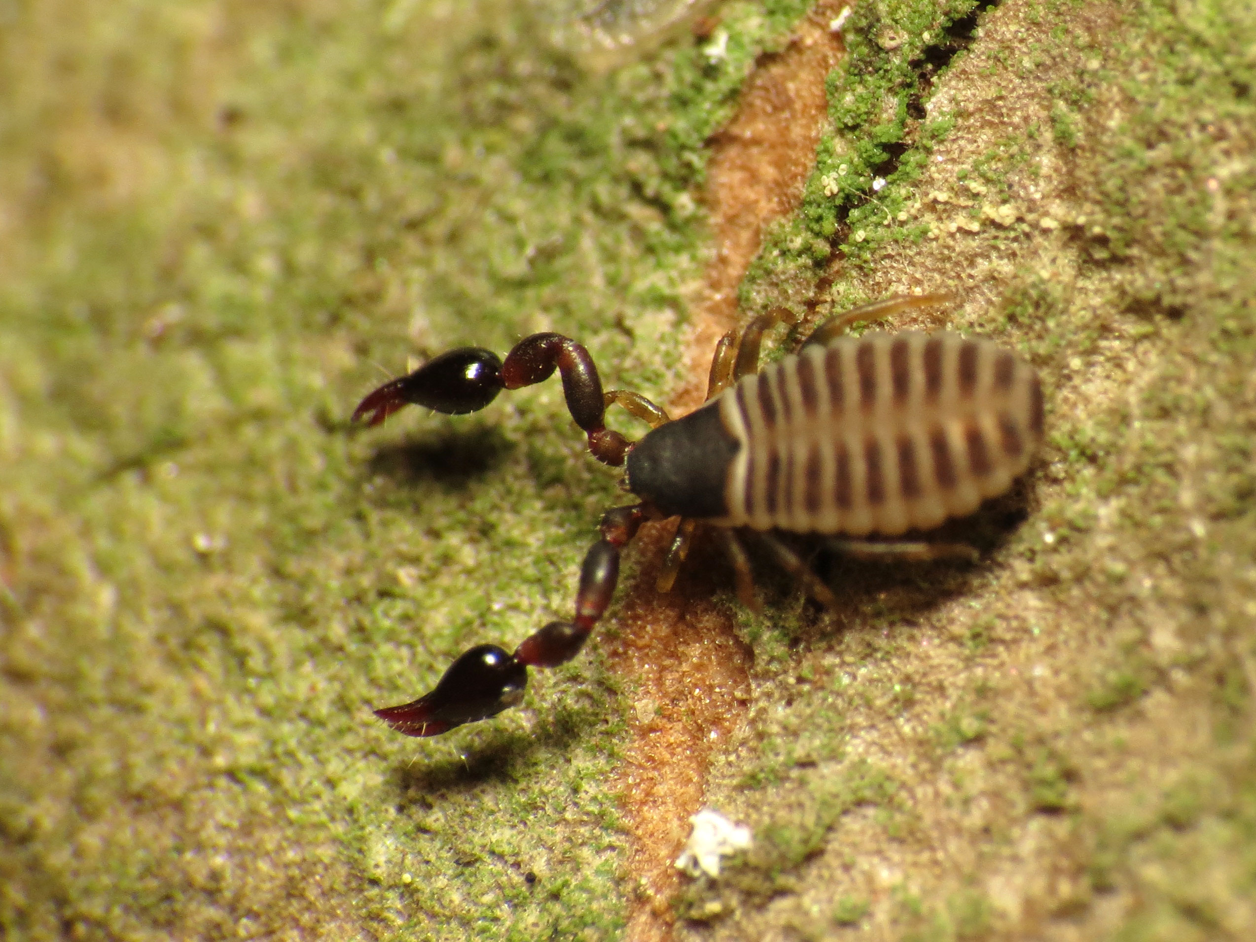 Pseudoscorpiones. Rock Creek Park, Washington, DC, USA.